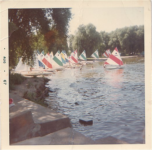 Photo of Crescent Beach in Pultneyville, New York USA in 1967